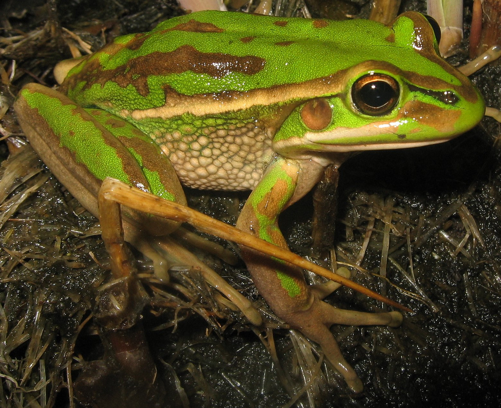 A male Green and Golden Bell Frog (Litoria aurea).